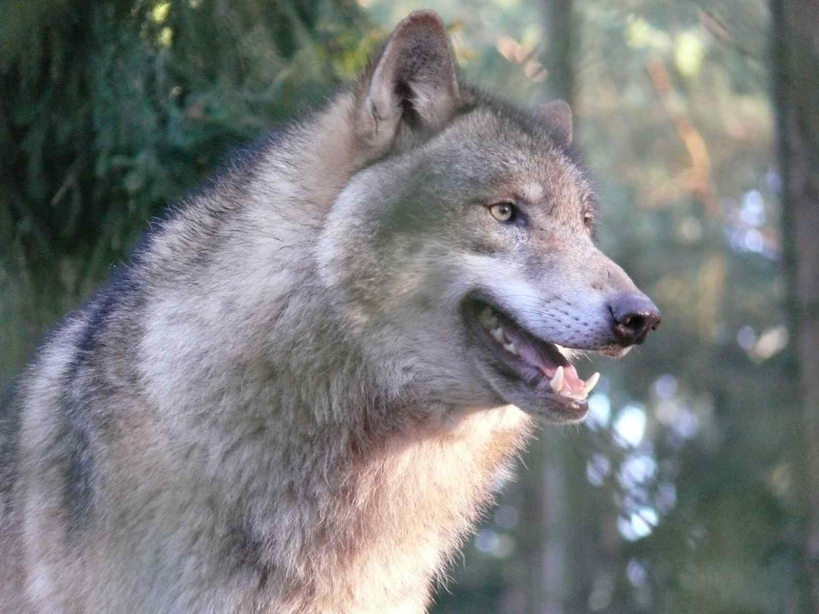 Wolf